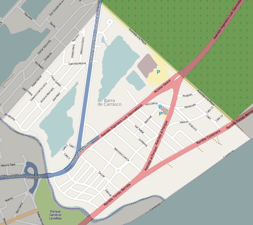 Street map of Barra de Carrasco, resort of the Ciudad de la Costa, Canelones Department, Uruguay, exported from OpenStreetMap. I added shading to delimit the resort. This map may be incomplete, and may contain errors. Don't rely solely on it for navigation.